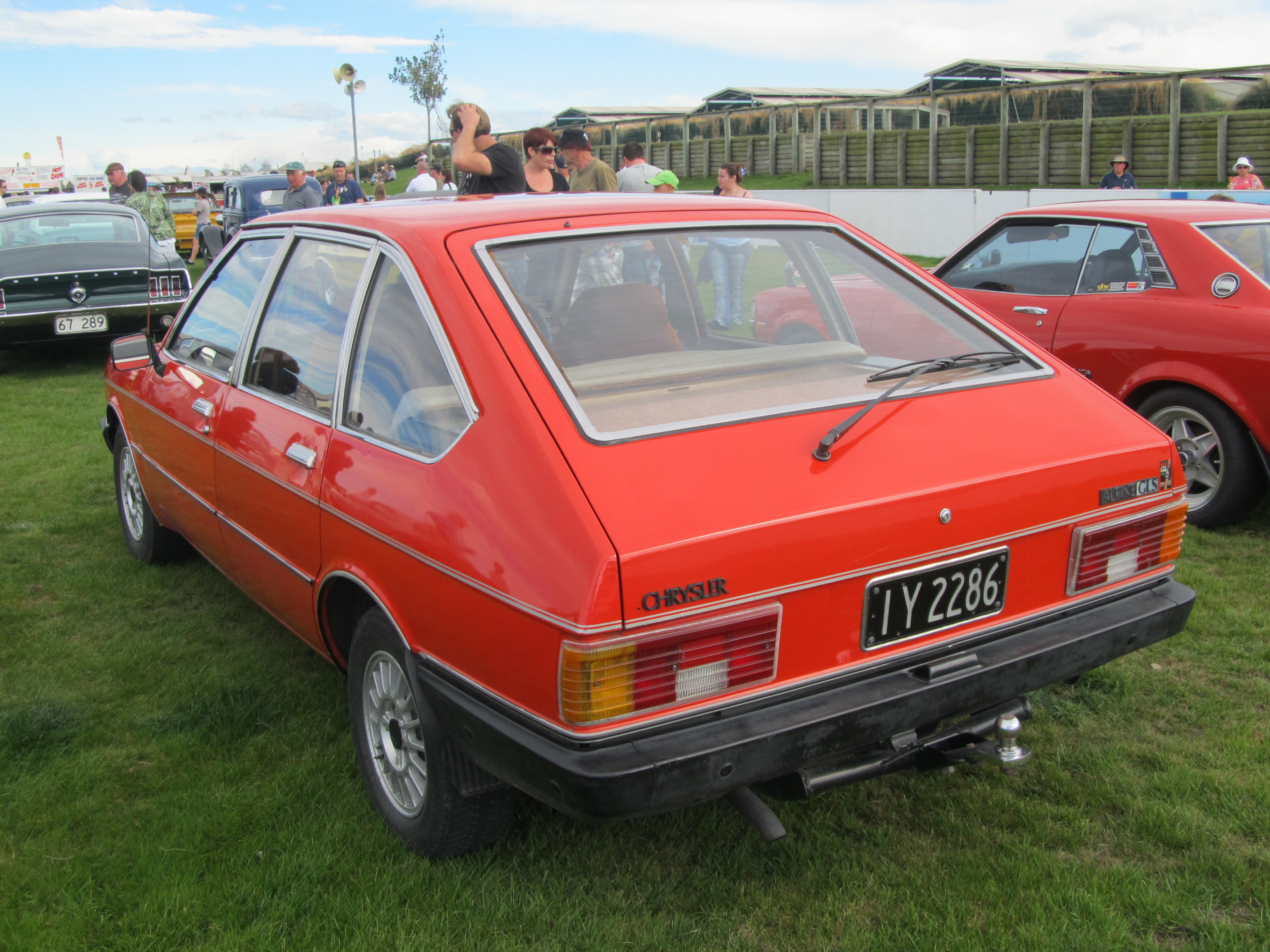 IY2286 This was in amazing condition, and was my 'car of the show'. It even retained its 'Todd Motors, Porirua' engine plate! The owner also has another Alpine in his garage. I wonder if he knows about the place up Horotane Valley with all the Alpines, some of which you have seen already...